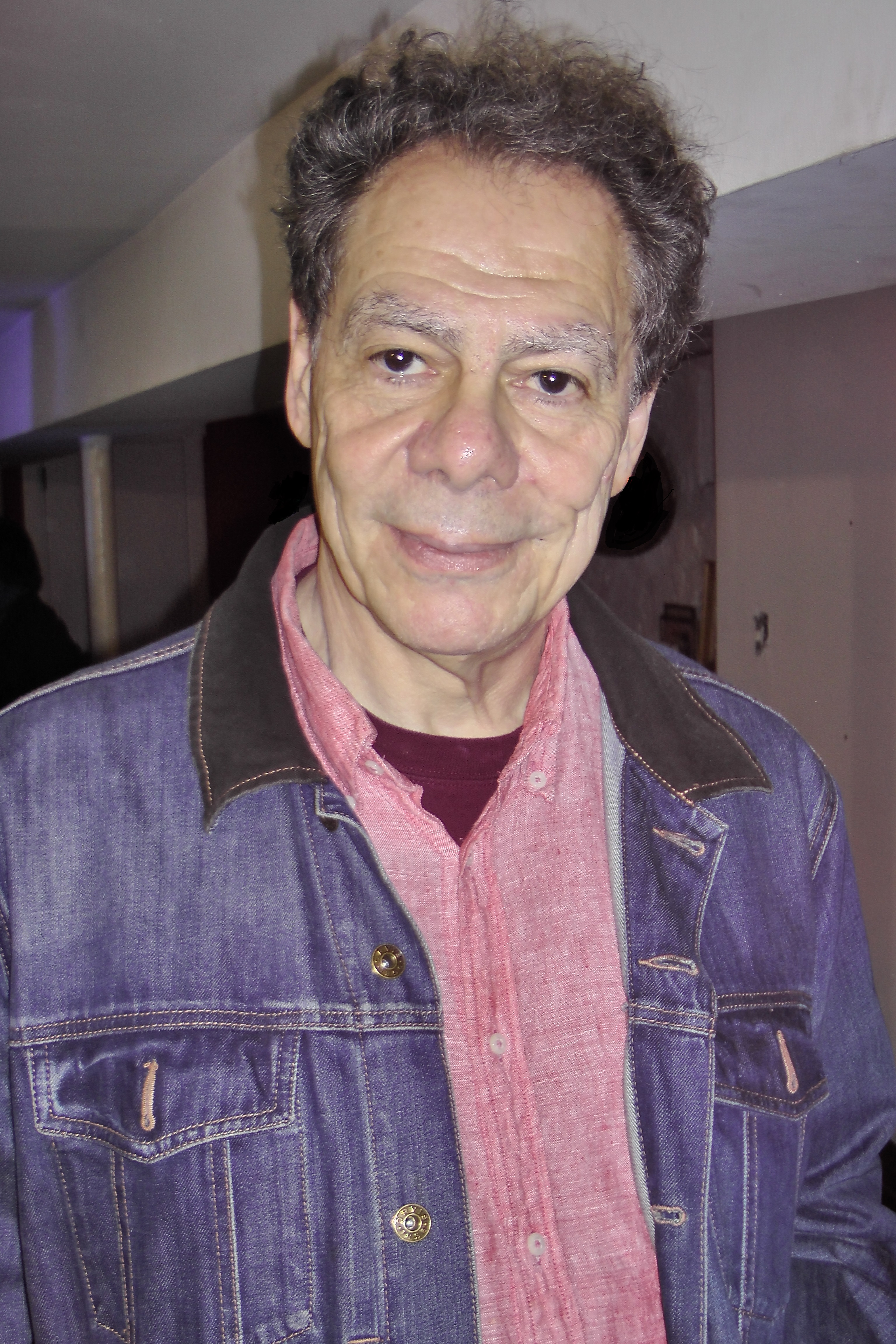 Robert Dick at a performance space in NYC